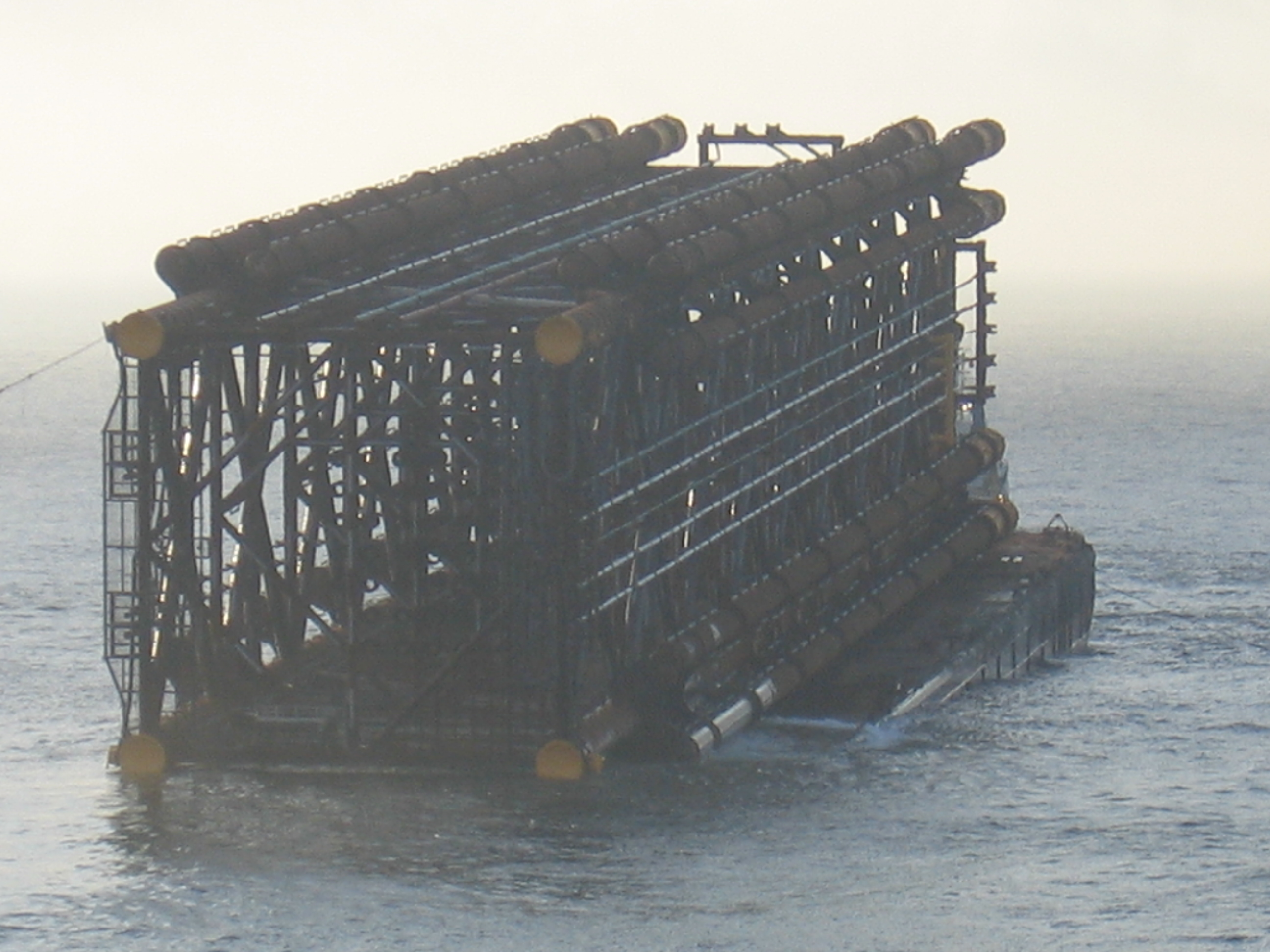 Benguela Belize tower base prior to launch, 15-4-2005.